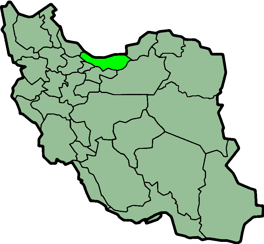 Province of Mazandaran, Iran